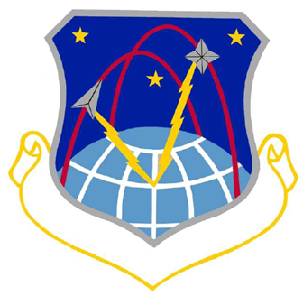 2d Satellite Tracking Group emblem